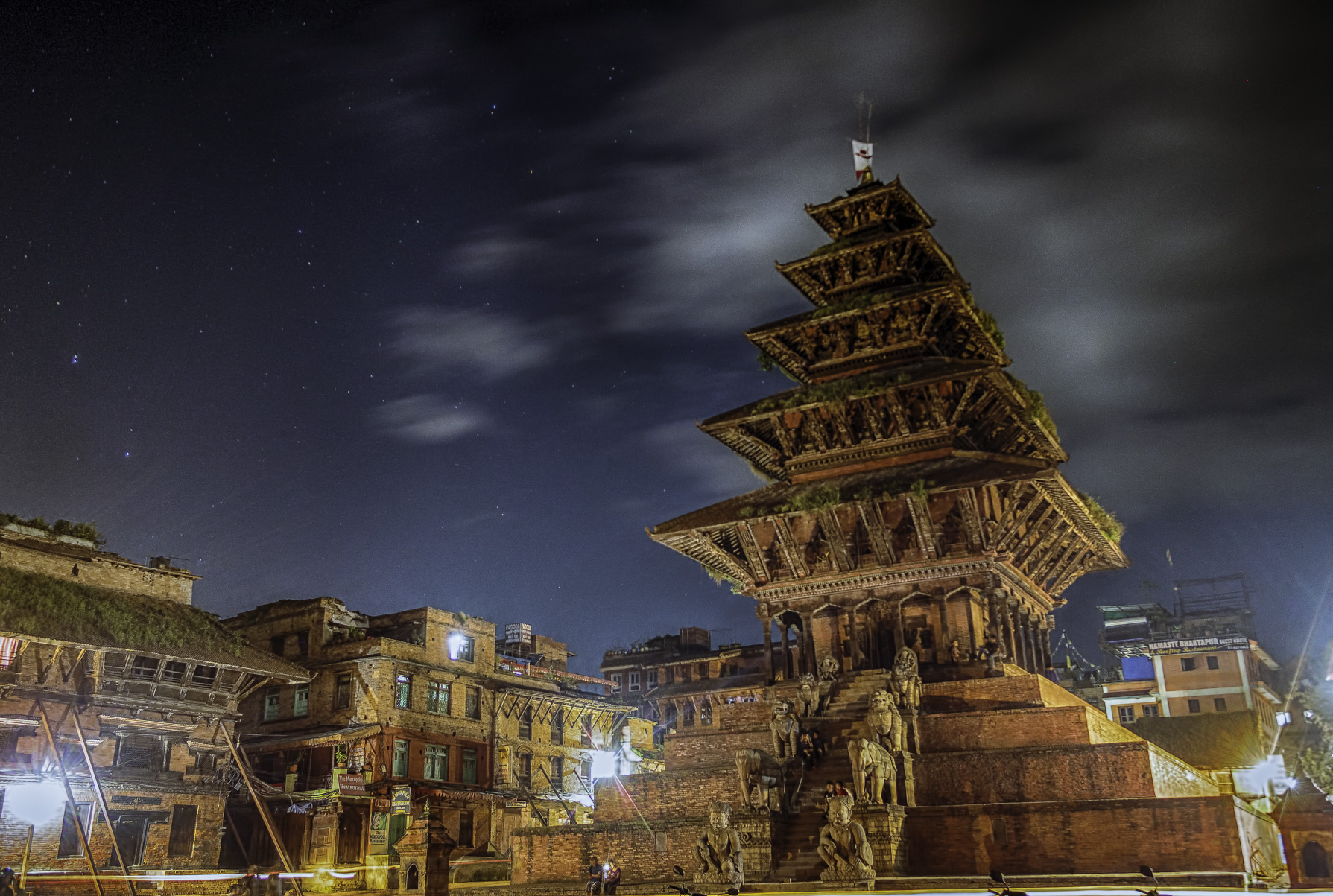 Nyatapol Temple of Bhaktapur - during night.